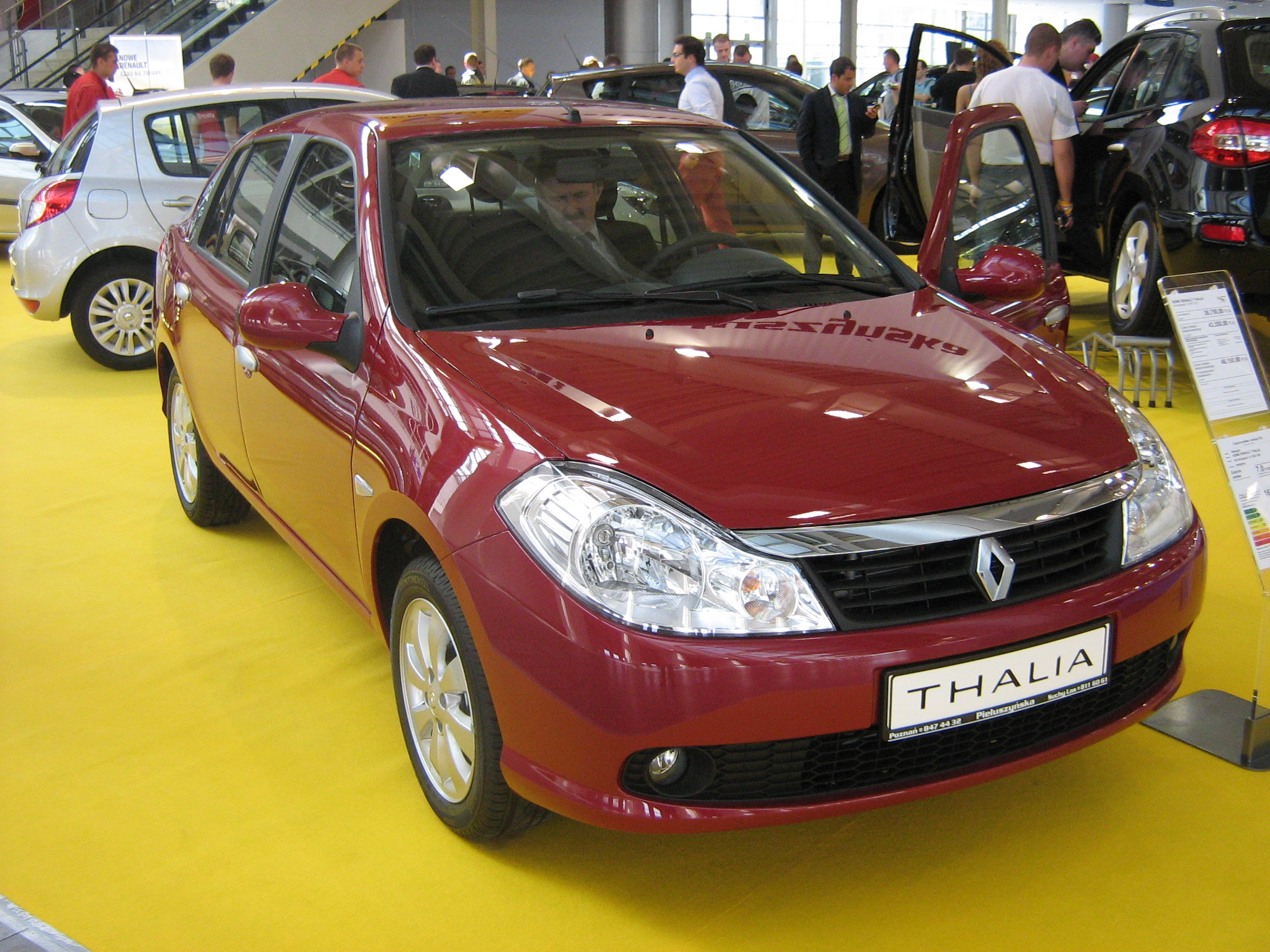 Renault Thalia II front - PSM 2009 in Poznan.